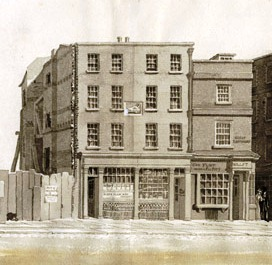 1829 illustration of the Boar's head inn, Eastcheap, shortly before demolition